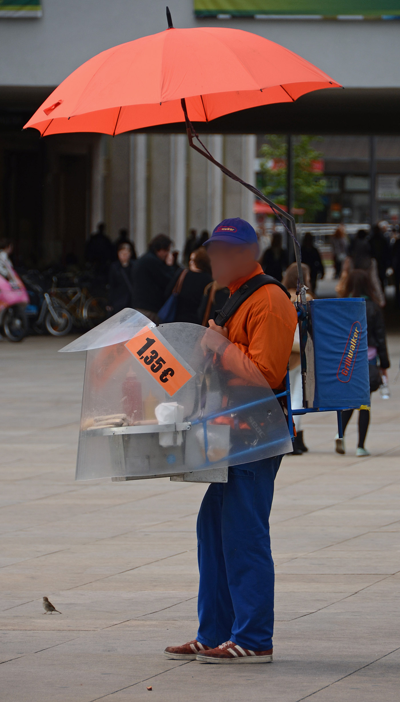 Grillwalker in Berlin (Alexanderplatz)